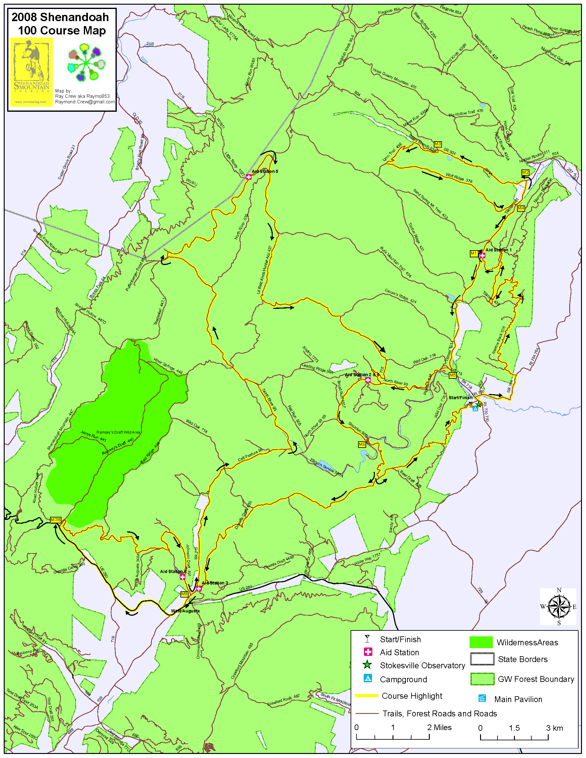 I made this course map for the 2008 event. Produced using public data sources and sources I created myself. Produced using ESRI ArcGIS 9.2.